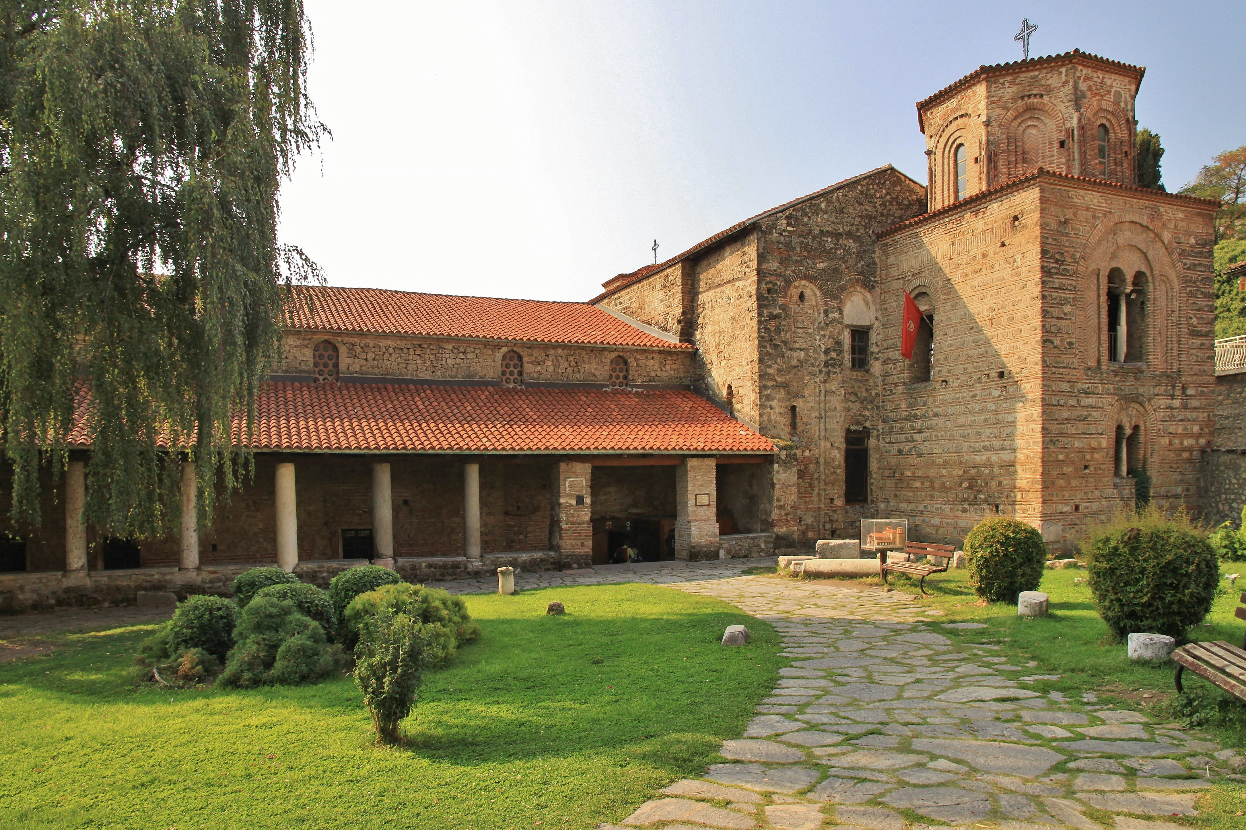 Church of St. Sophia. Ohrid, Macedonia.